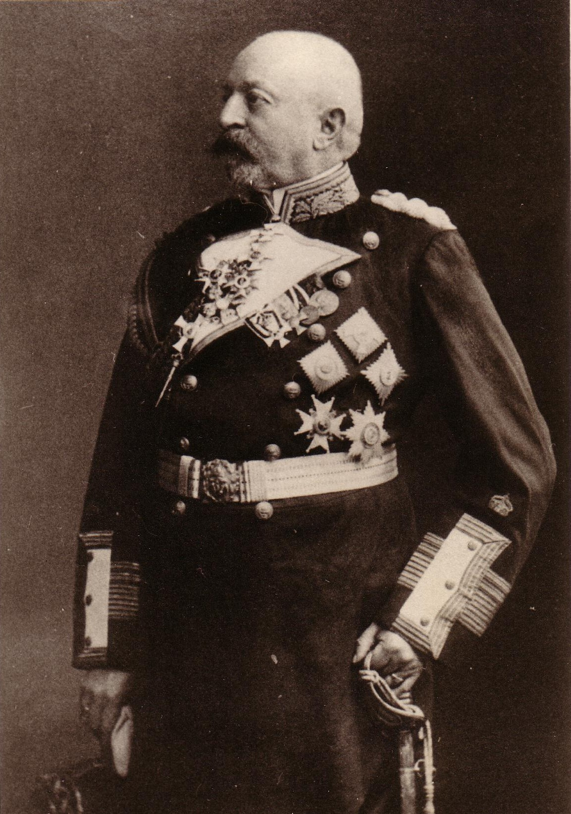 ADM a la suite Curt von Prittwitz, of the Kaiserliche Marine. He wears the badge and breast star of the Order of the Red Eagle, 2nd Class, as well as the badge of the 3rd Class, with bow.